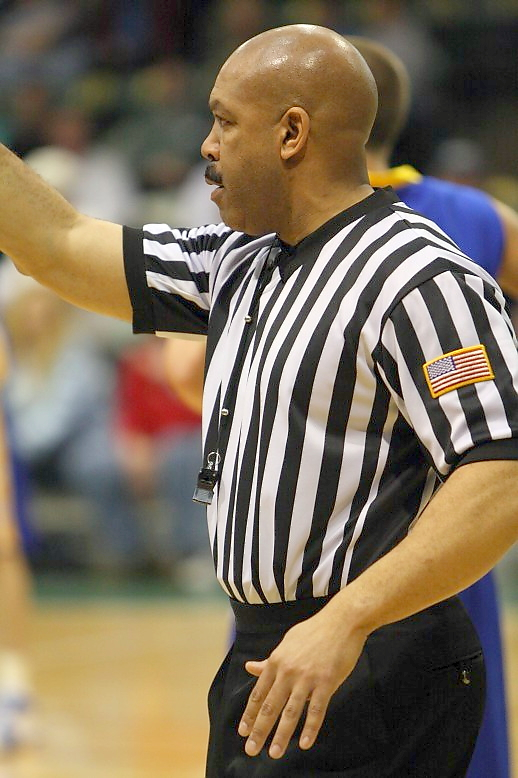 Men's basketball official - NMU Wildcats Mens Basketball vs LSSU Lakers - Berry Events Center - February 23, 2008NMU Wildcats Mens Basketball vs LSSU Lakers - Berry Events Center - February 23, 2008